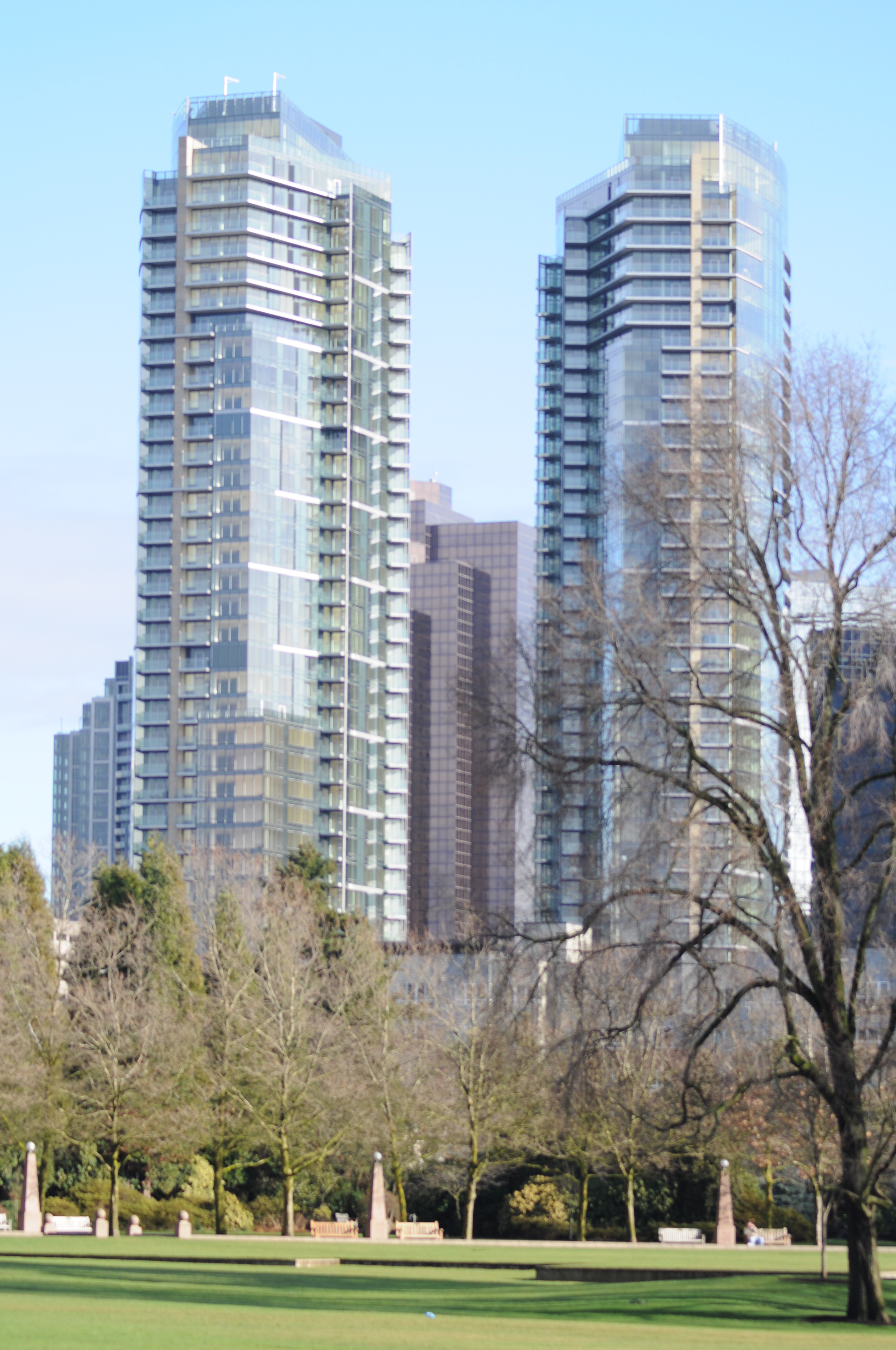 Bellevue Towers in Bellevue, Washington, from Downtown Park. Behind and between the twin towers can be seen the pink glass of City Center Bellevue building.